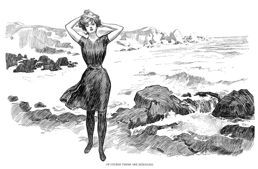 Gibson Girl on a beach, Charles Dana Gibson, 1902. In-image caption: "Of course there are mermaids."